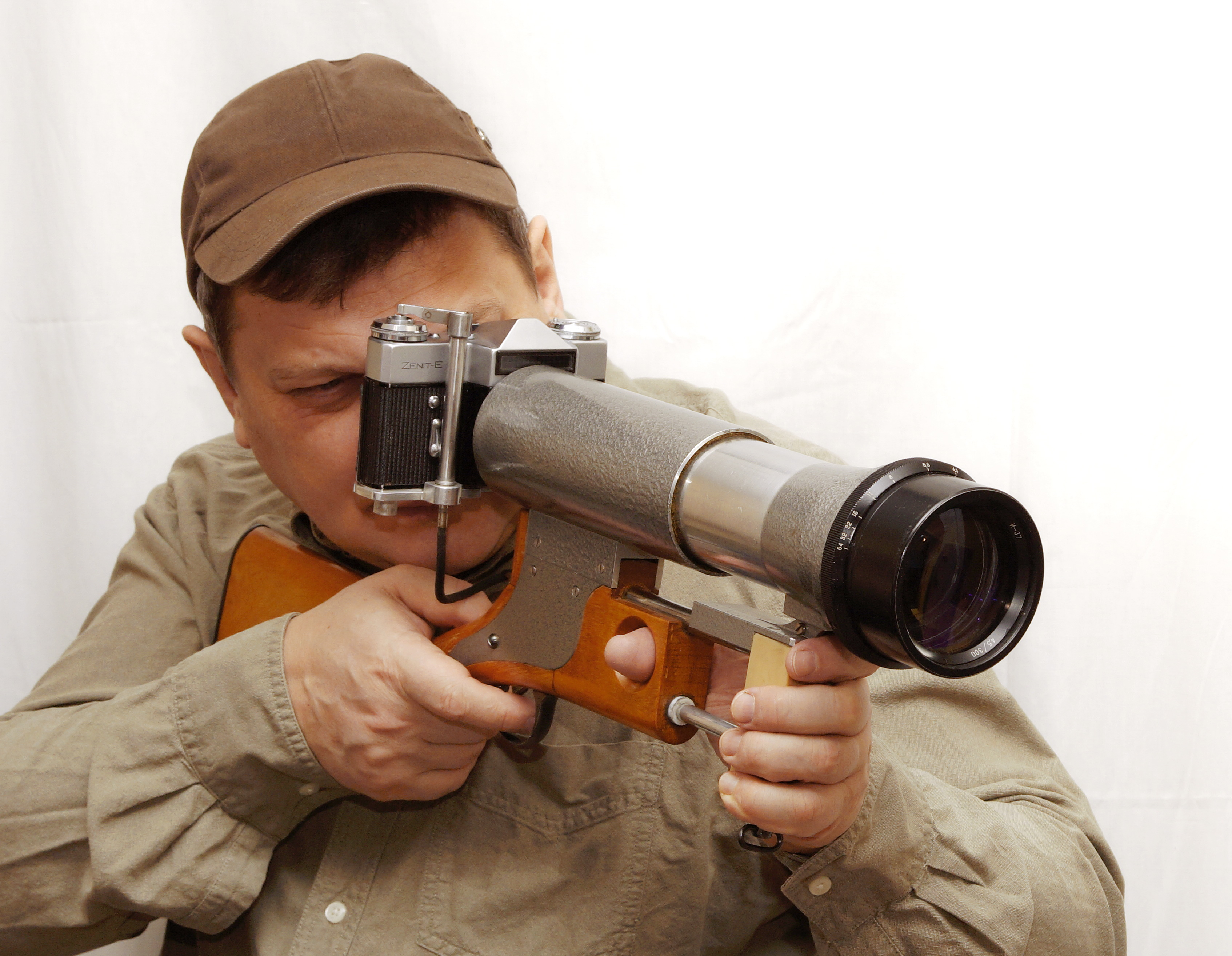 FRAM-11/65 photographic gun made by A. Artyukhov in 1960s. 5/300.